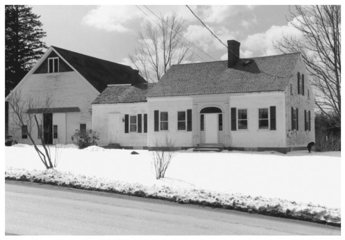 1883 historic home